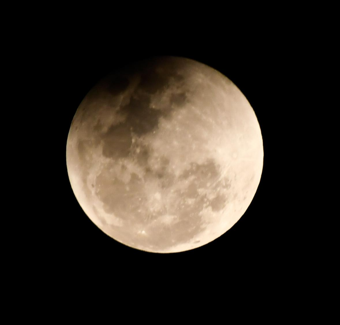 January 2018 Lunar Eclipse took place on 31st January 2018 seen in Kerala